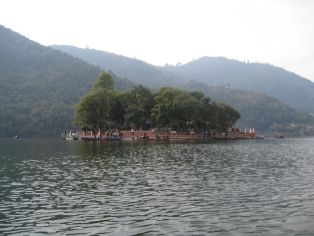 A temple in Nepal.